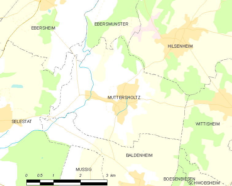 Map of French municipality